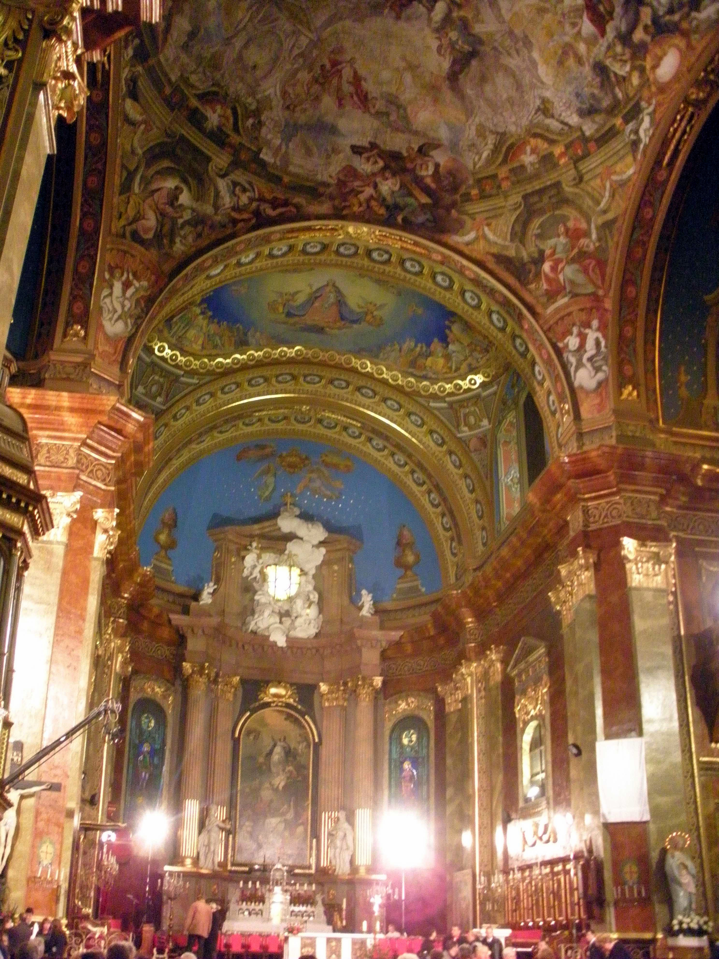 Prezbiterium of Mary's Bazilika in Oradea (Nagyvárad) in Romania